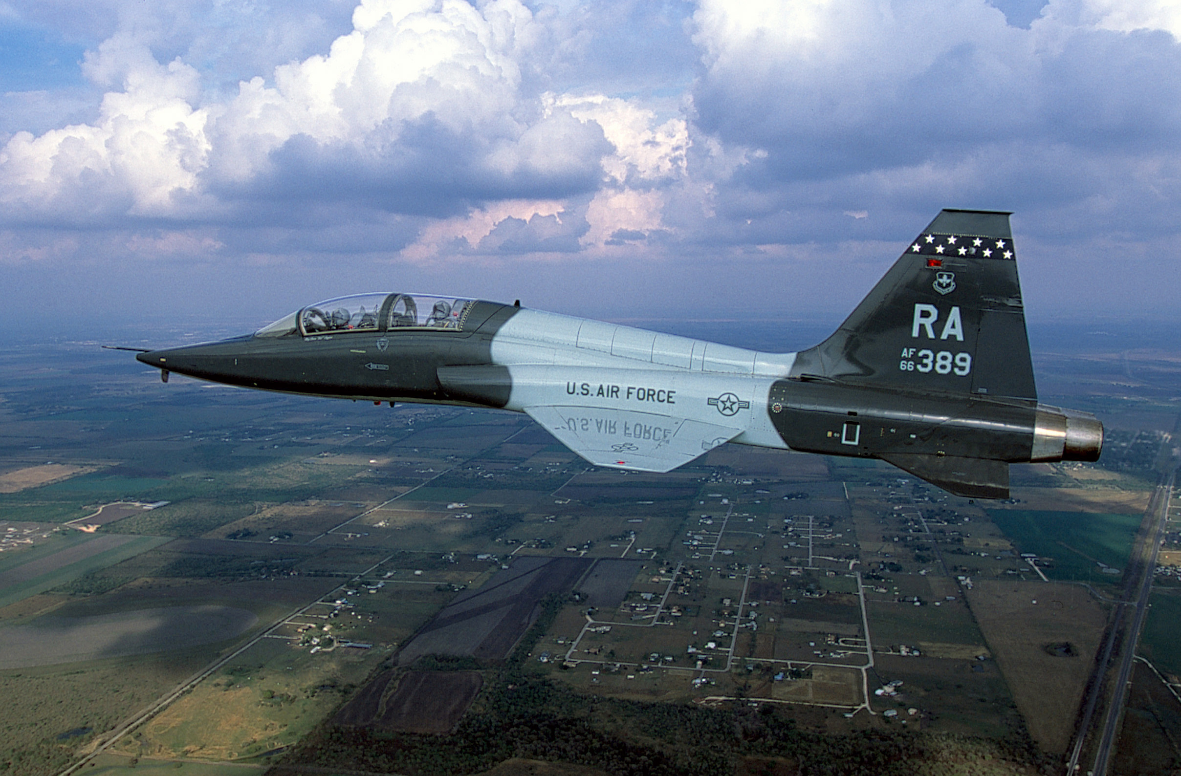 A U.S. Air Force Northrop T-38A-65-NO Talon aircraft from 560th Flying Training Squadron, Randolph AFB, Texas (USA), flying over the Texas countryside on 13 November 2001. This aircraft is either s/n 66-4389 or 66-8389.